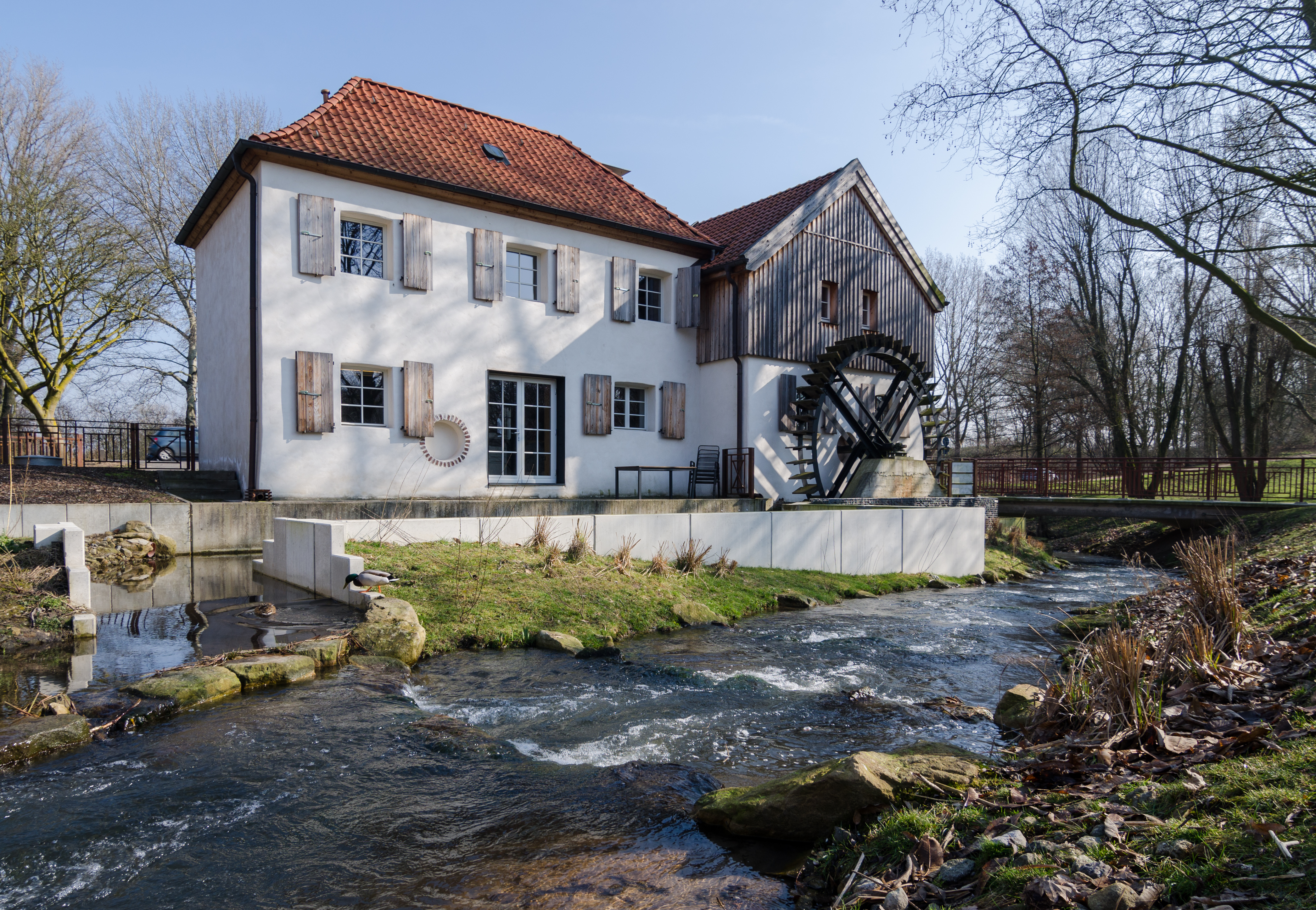 Moers (North Rhine-Westphalia, Germany) – watermill Aumühle at the stream Moersbach